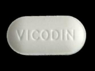 Vicodin tablet